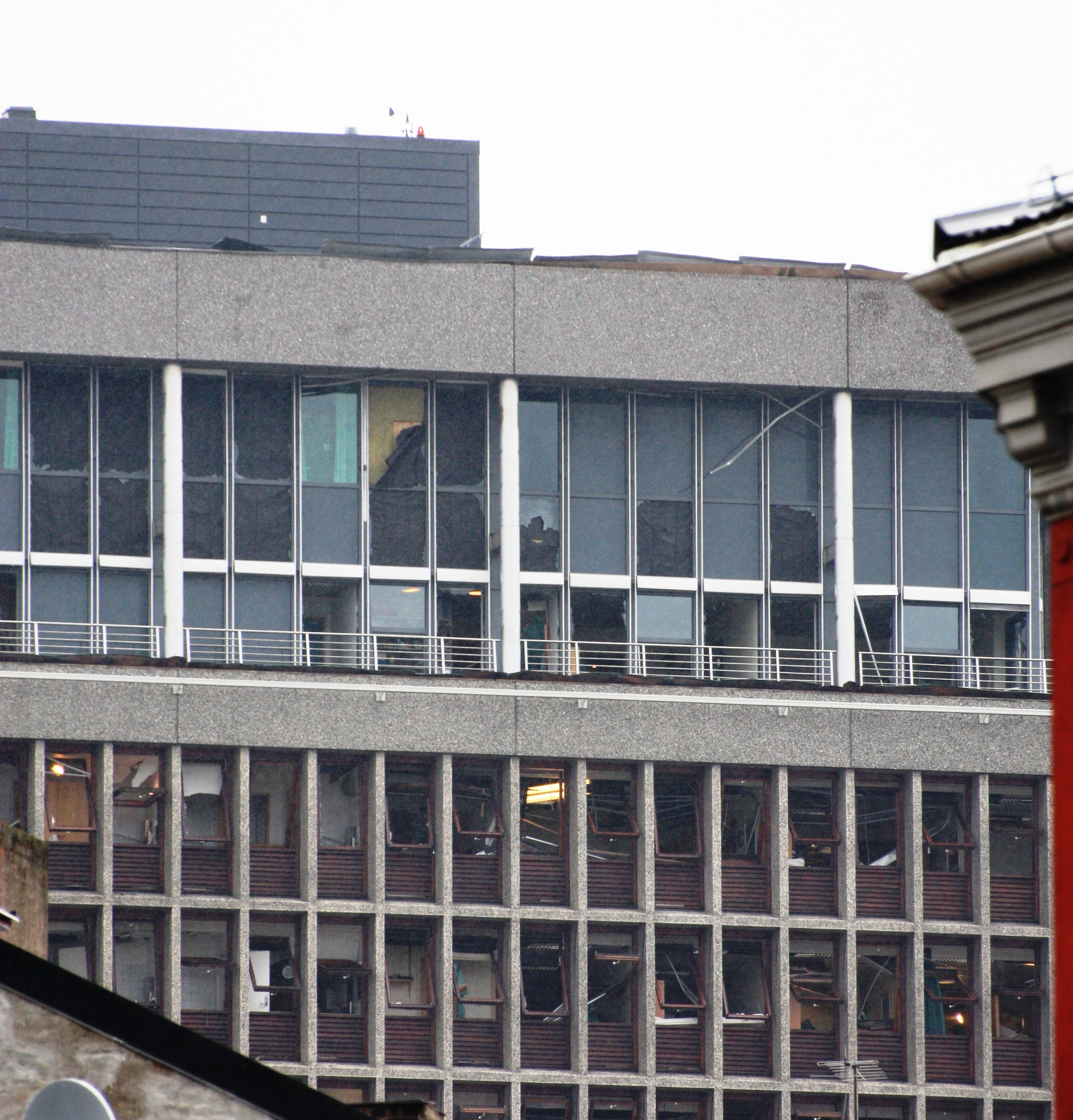 Prime minister's office (H block) the day after the bombing. Most windows blown out. Interiors razed.